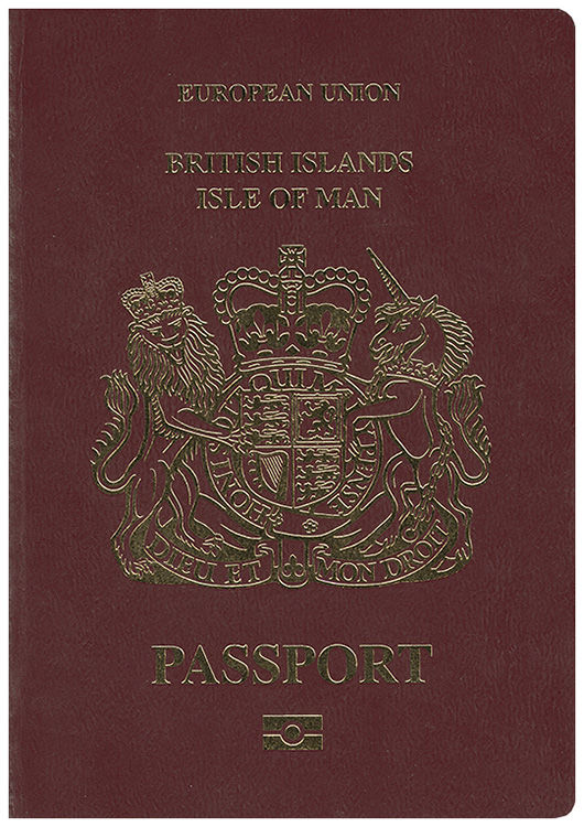 Isle of Man passport